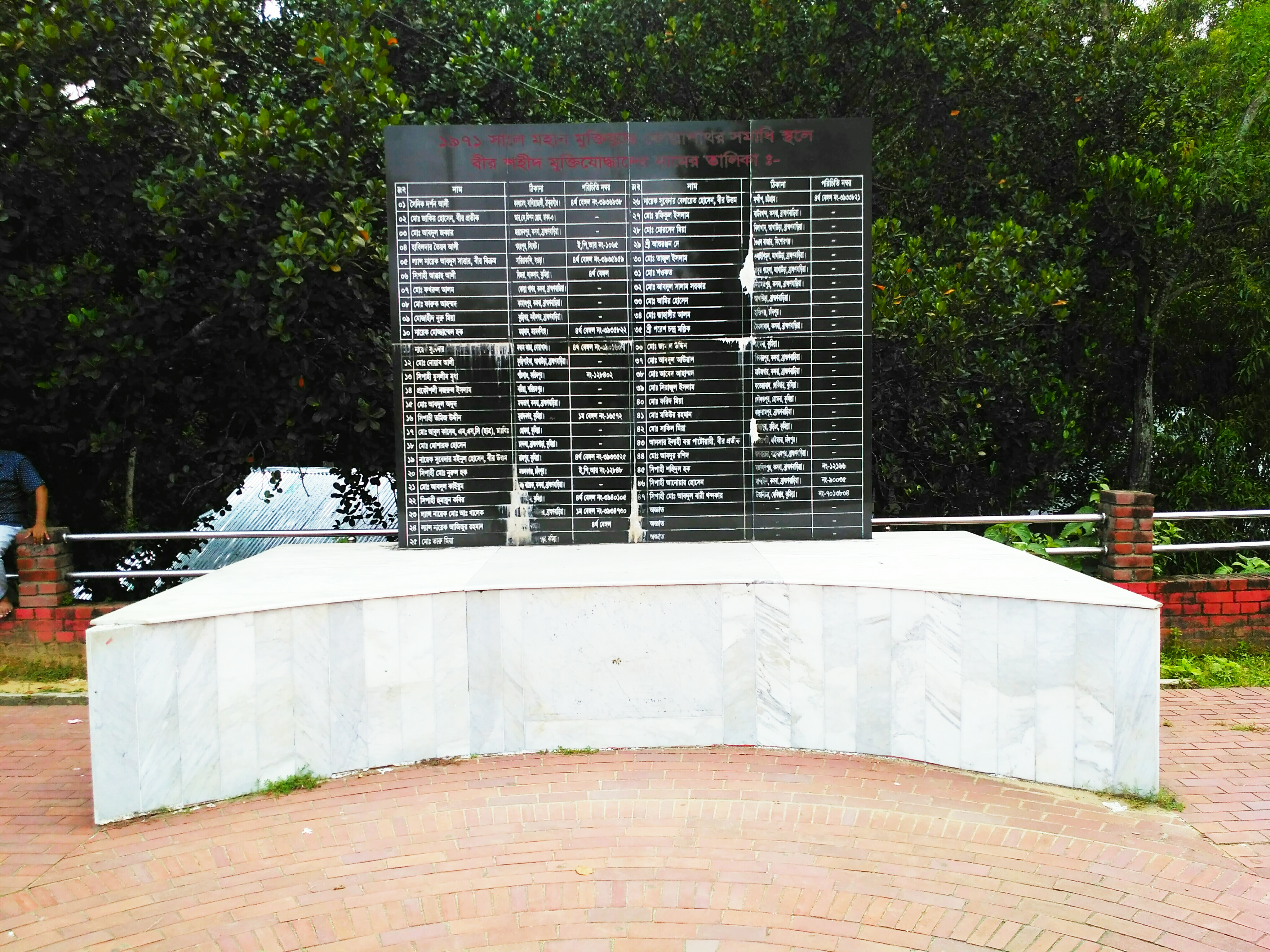 Kullapathar Martyrs Memorial. Names of the martyrs of freedom fighters in the liberation war of 1971. Kasba. Brahmanbaria. Bangladesh. ( 01.09.2019)